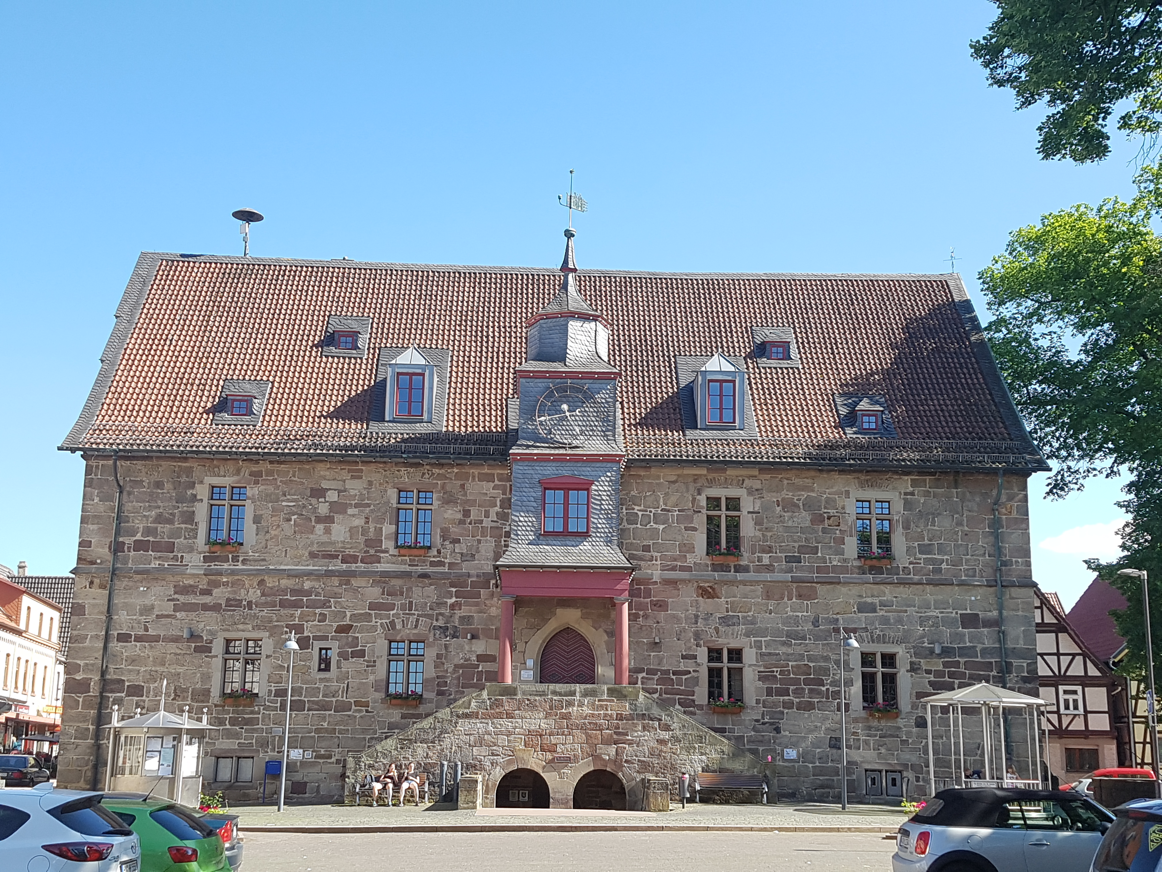 Stadthalle / Town-Hall Volkmarsen